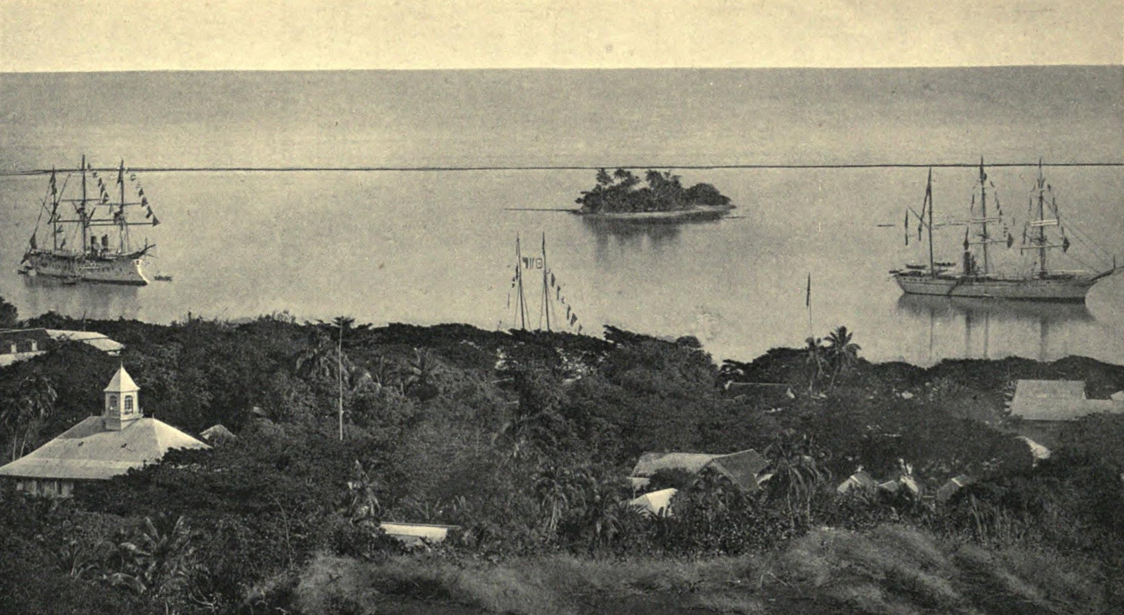 General view of Papeete from the signal station.